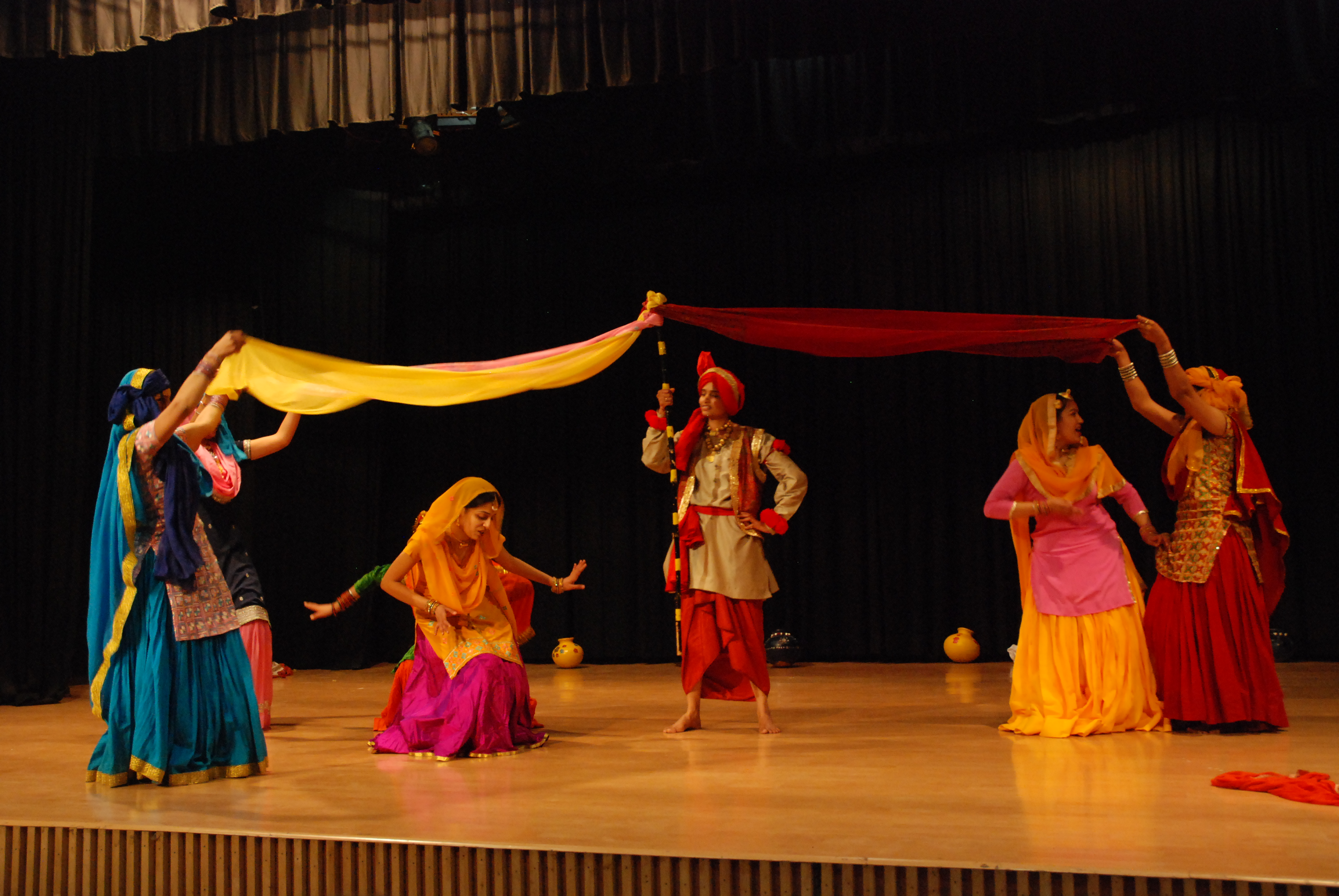 Punjabi folk Dance